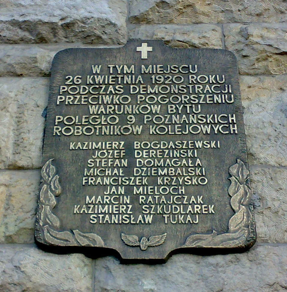 Communist Uprising Poznan, 1920. Imperial Castle.